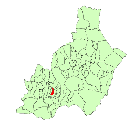 This image is based on Image:Almeria - Mapa municipal.svg